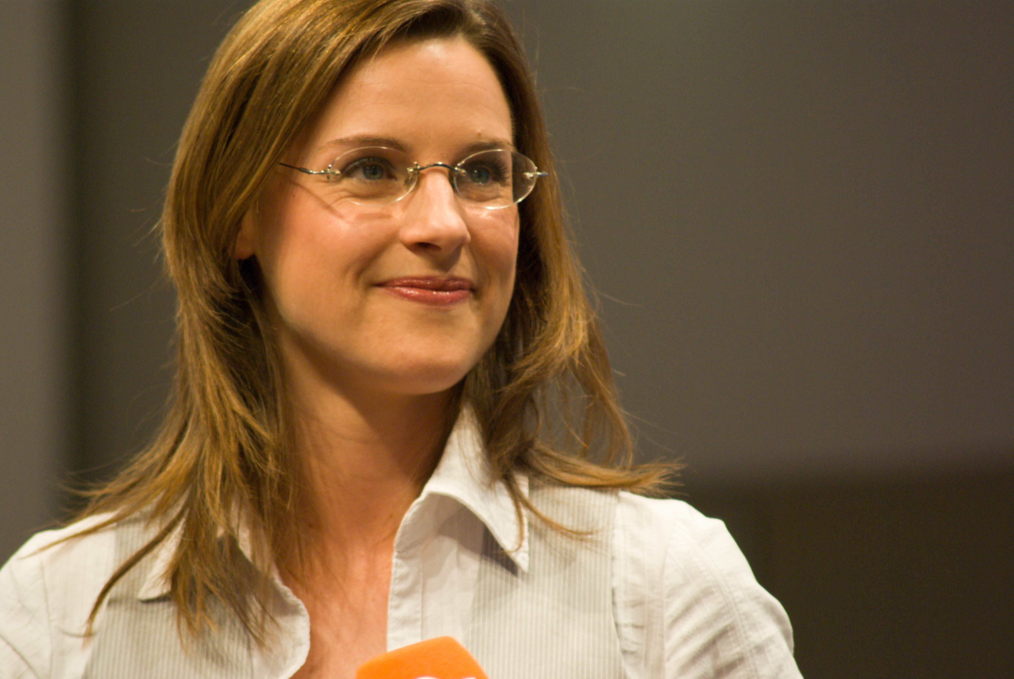 Picture of Kay-Sölve Richter, a German News Anchorwoman. Taken on IFA 2007 Berlin.